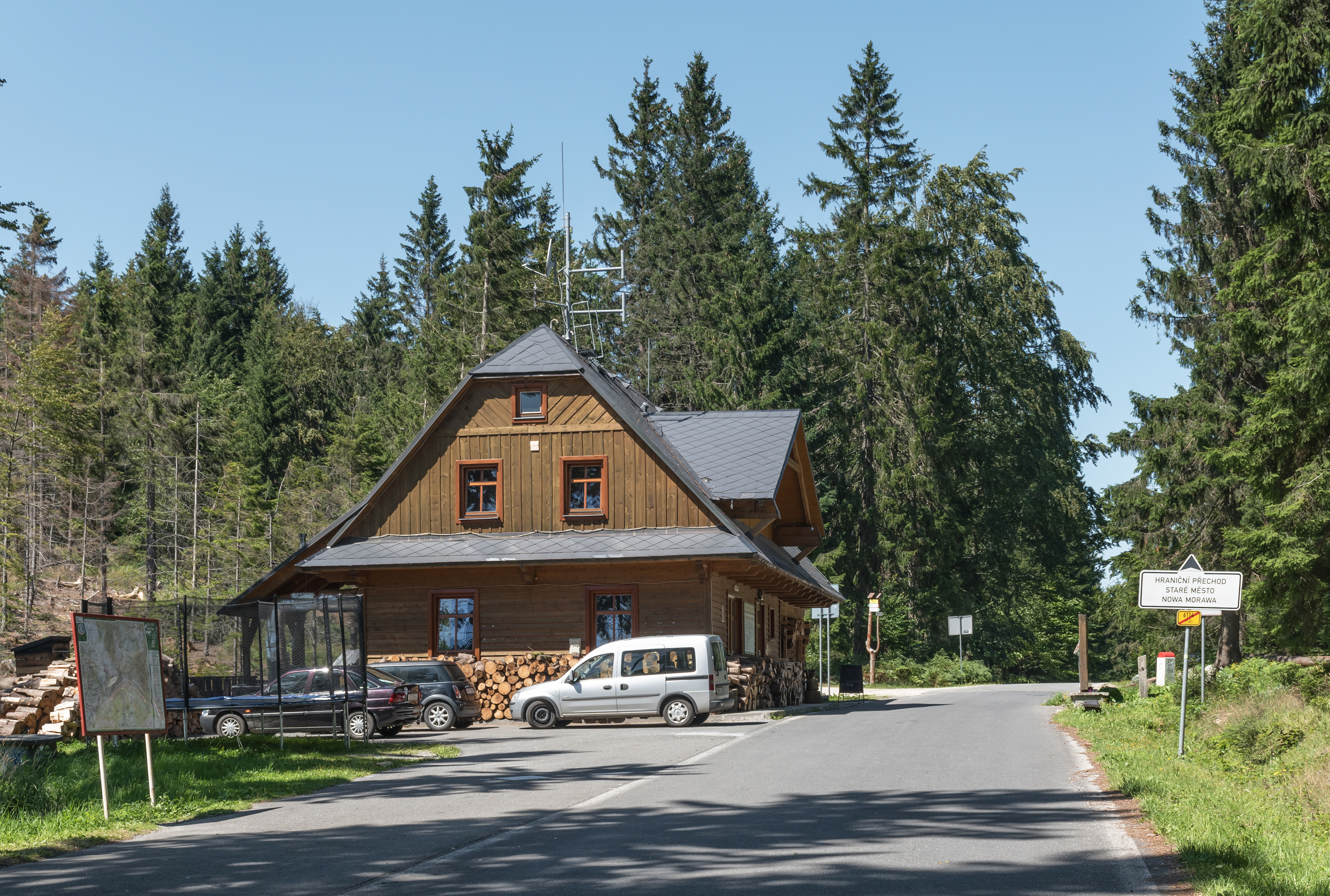 Płoszczyna Pass, former checkpoint building